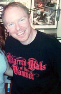 My visit to the SiriusXM studio Howard Stern Show Read the blog post here